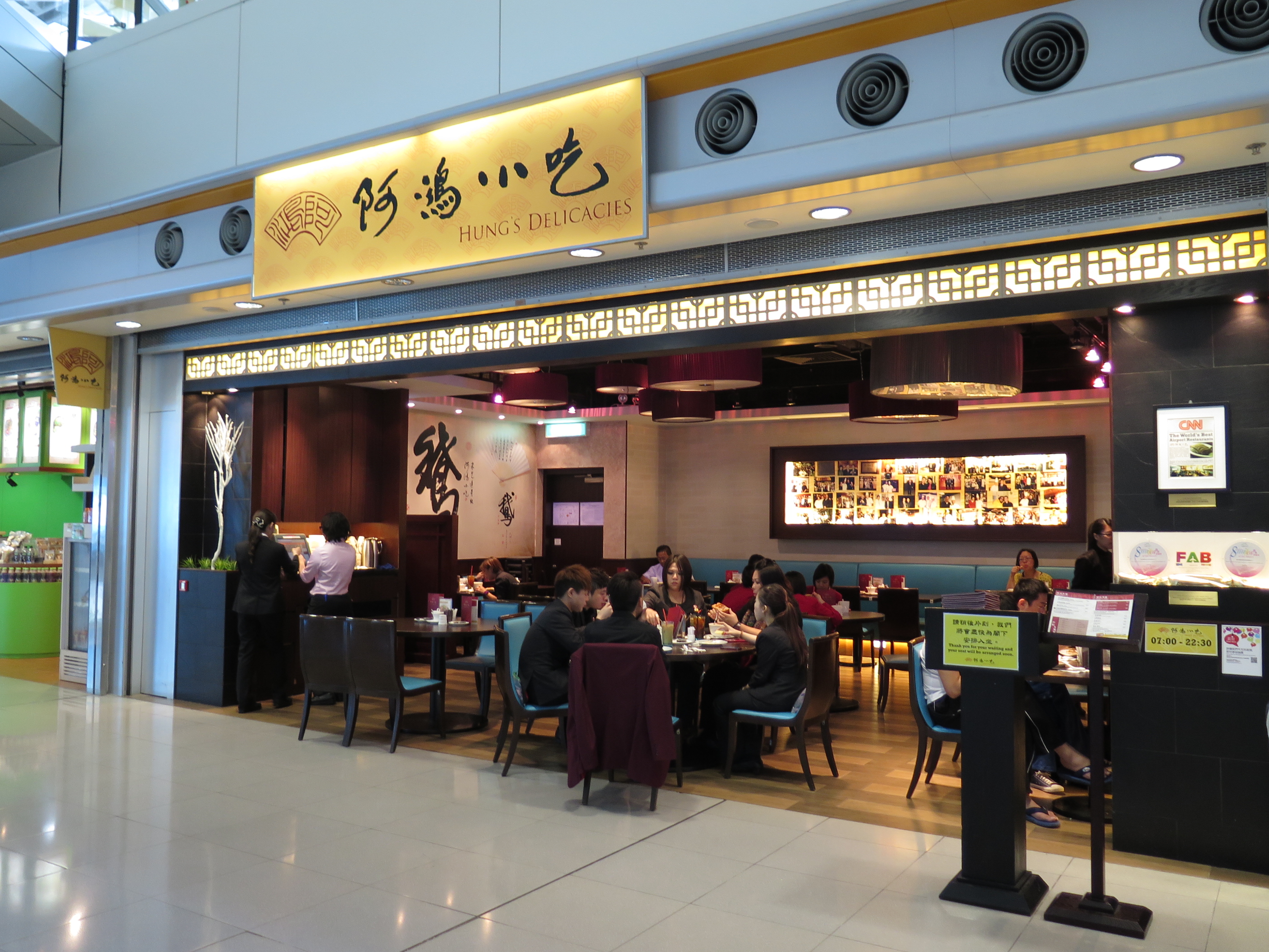 Hung's Delicacies in HKIA Terminal 2